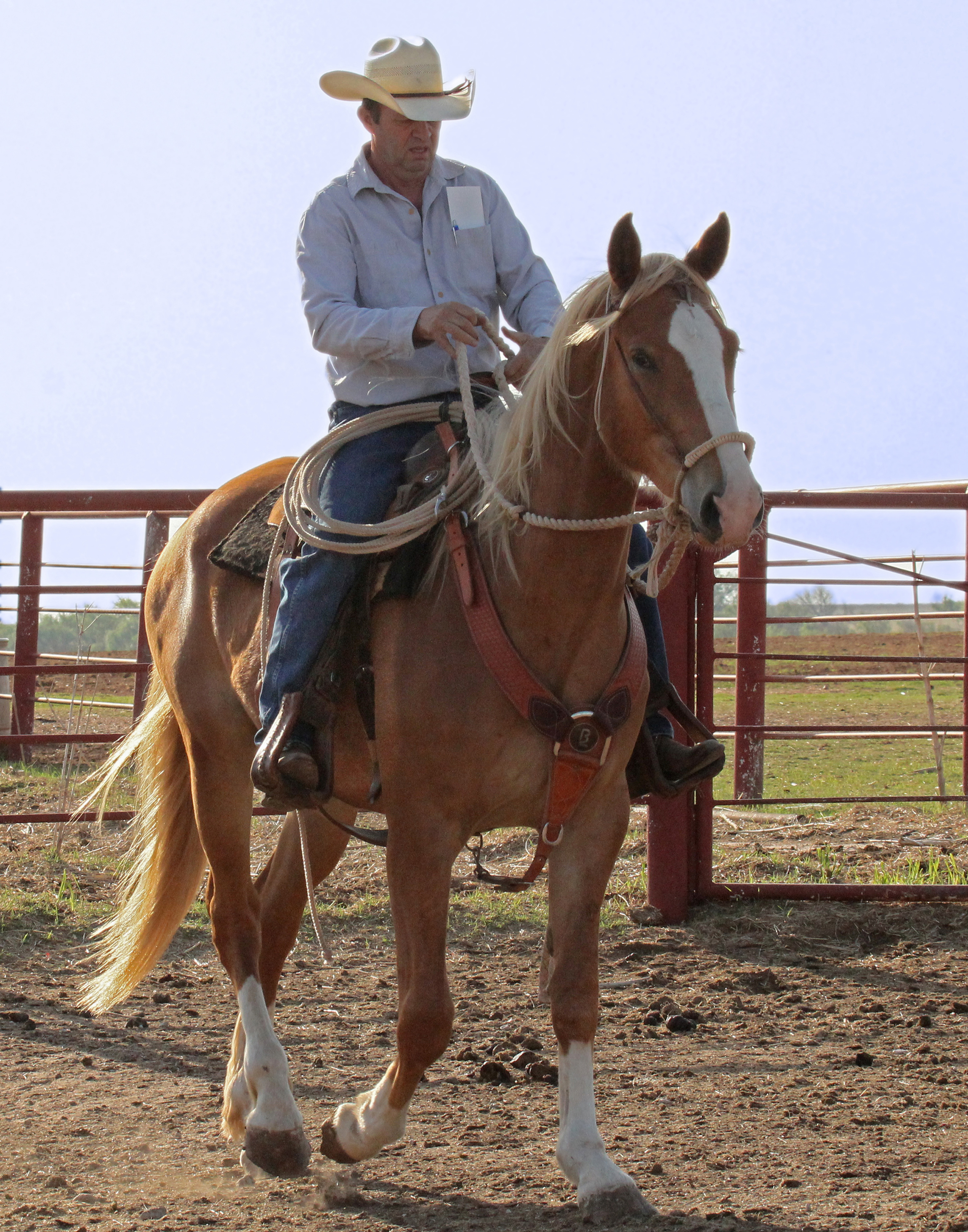 Cowboy on his horse heading out to pasture